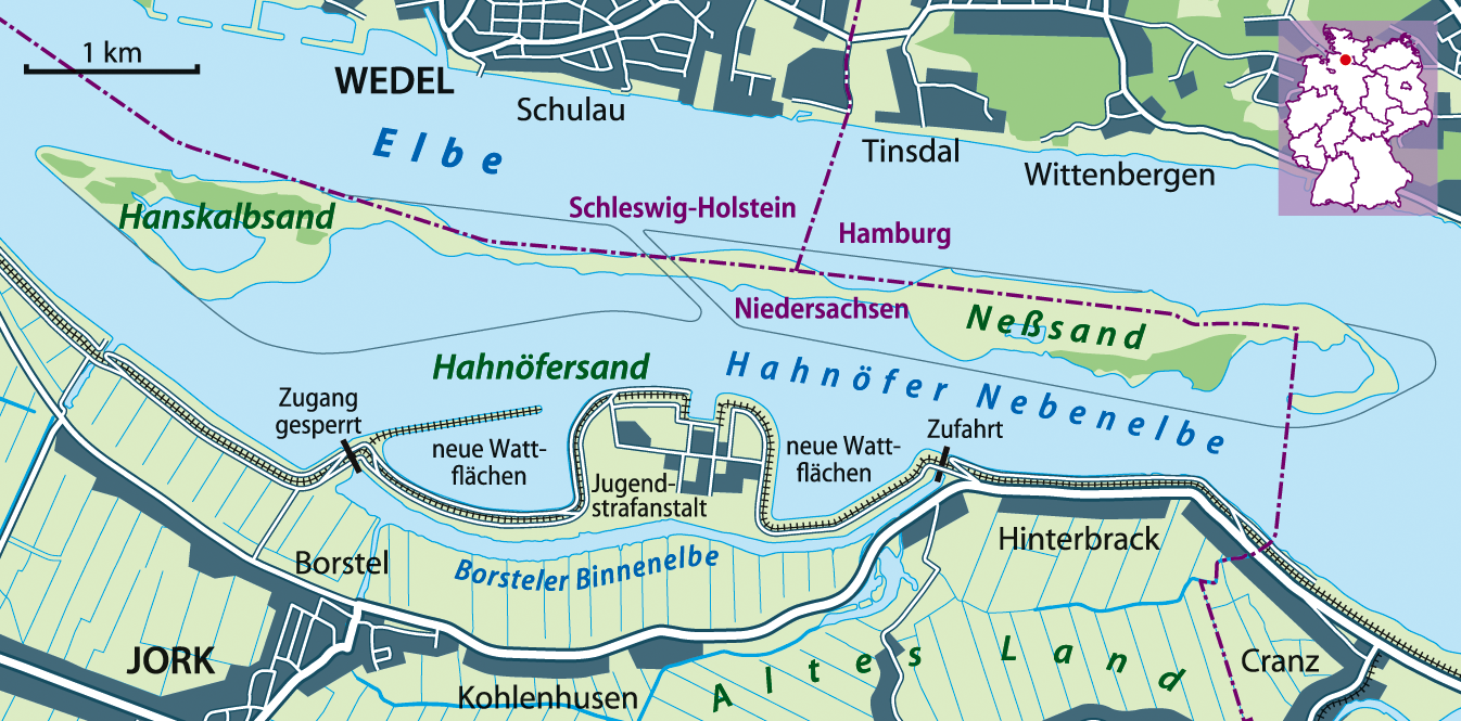 Map of a part of lower Elbe with the islands Neßsand, Hahnöfersand, Hanskalbsand and Schweinesand